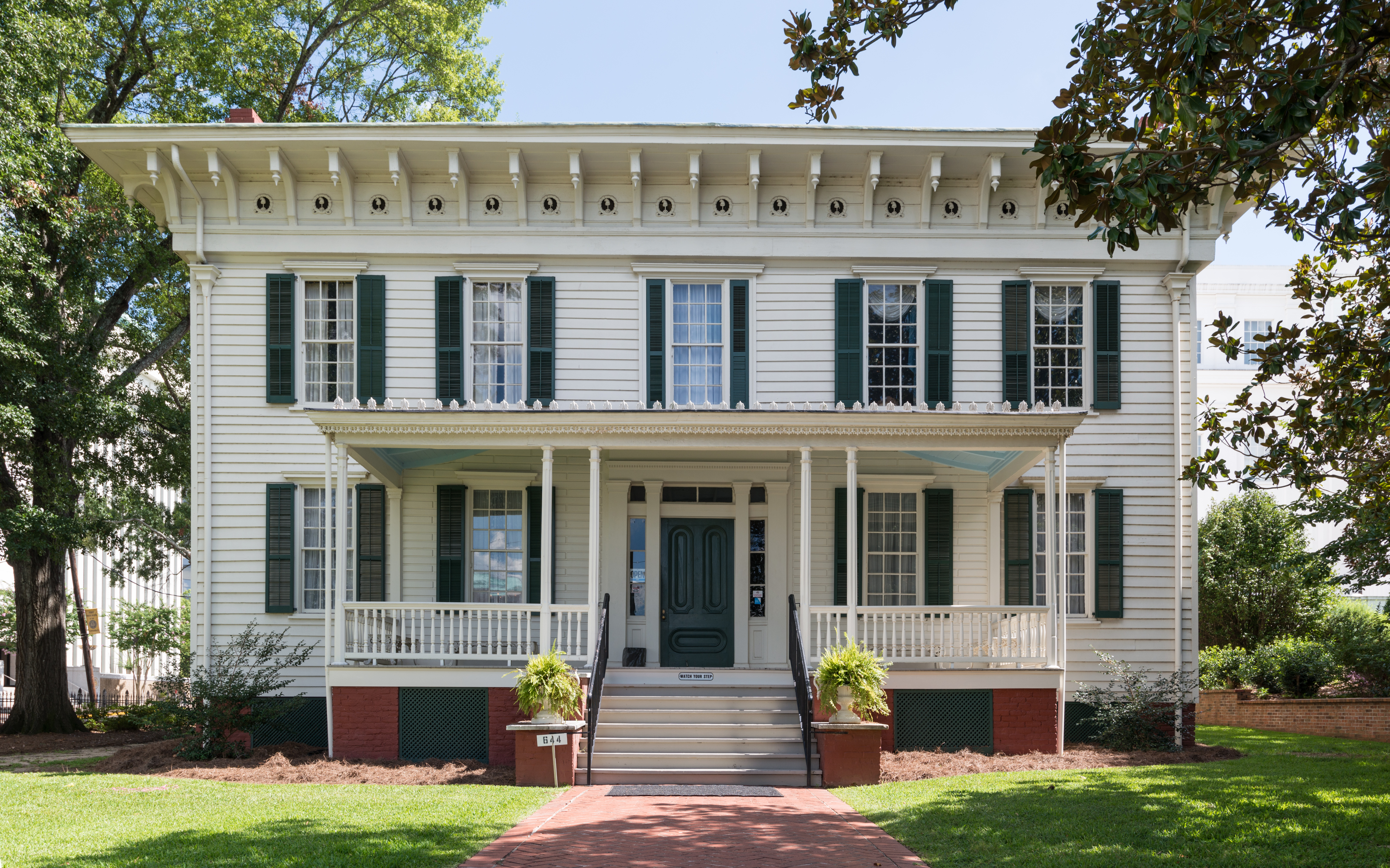 A north view of the First White House of the Confederacy, Montgomery, Alabama